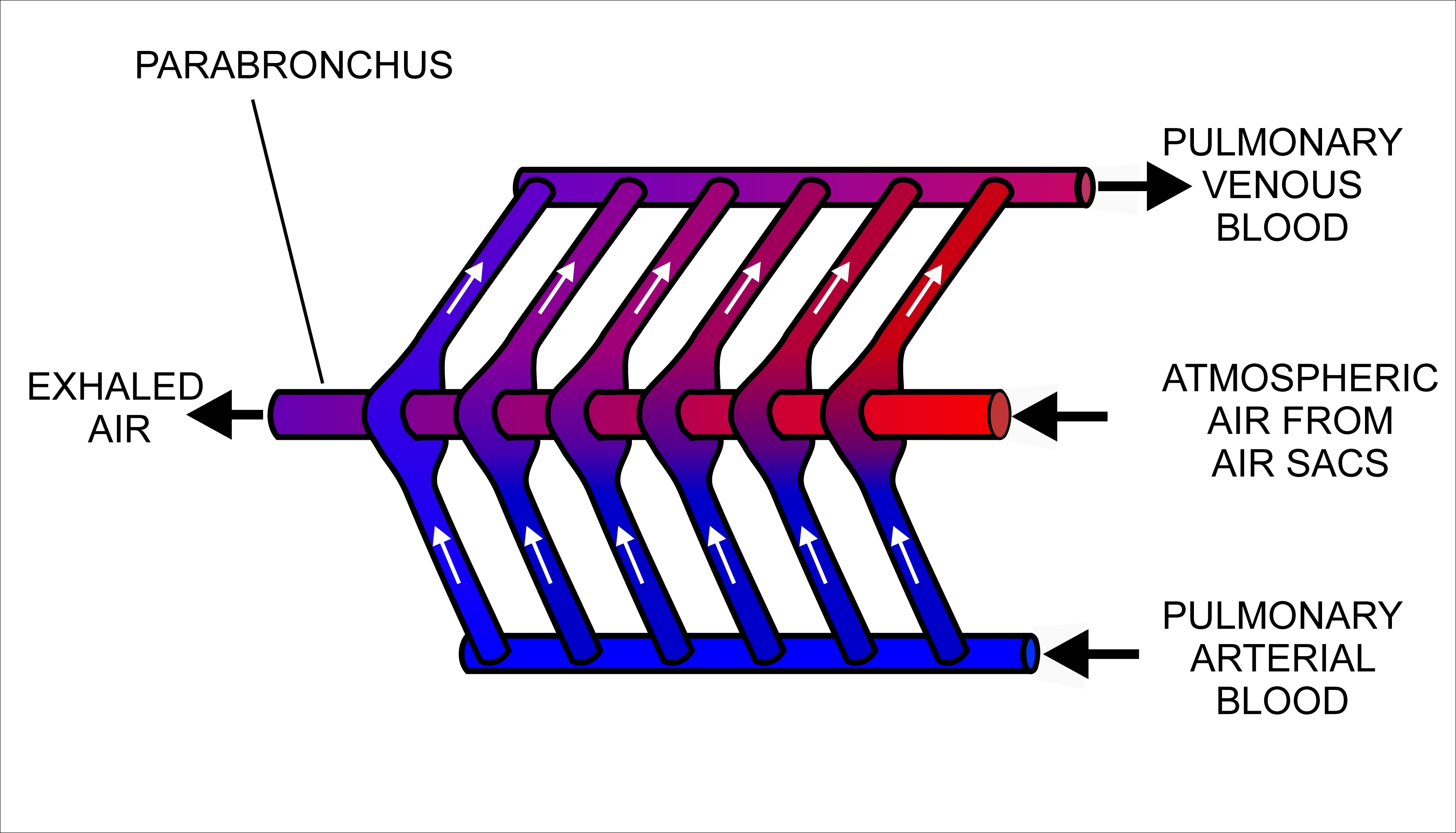 Diagram of the cross-current respiratory gas exchanger in the lungs of birds, Air is forced through the parabronchus in only one direction. Pulmonary capillaries surround the parabronchus in the manner shown, bringing de-oxygenated blood (from below in the diagram), and oxygenated (or partially oxygenated) blood drains leaves towards the top in the diagram.The blood from all of the pulmonary capillaries mixes before being distributed round the body.